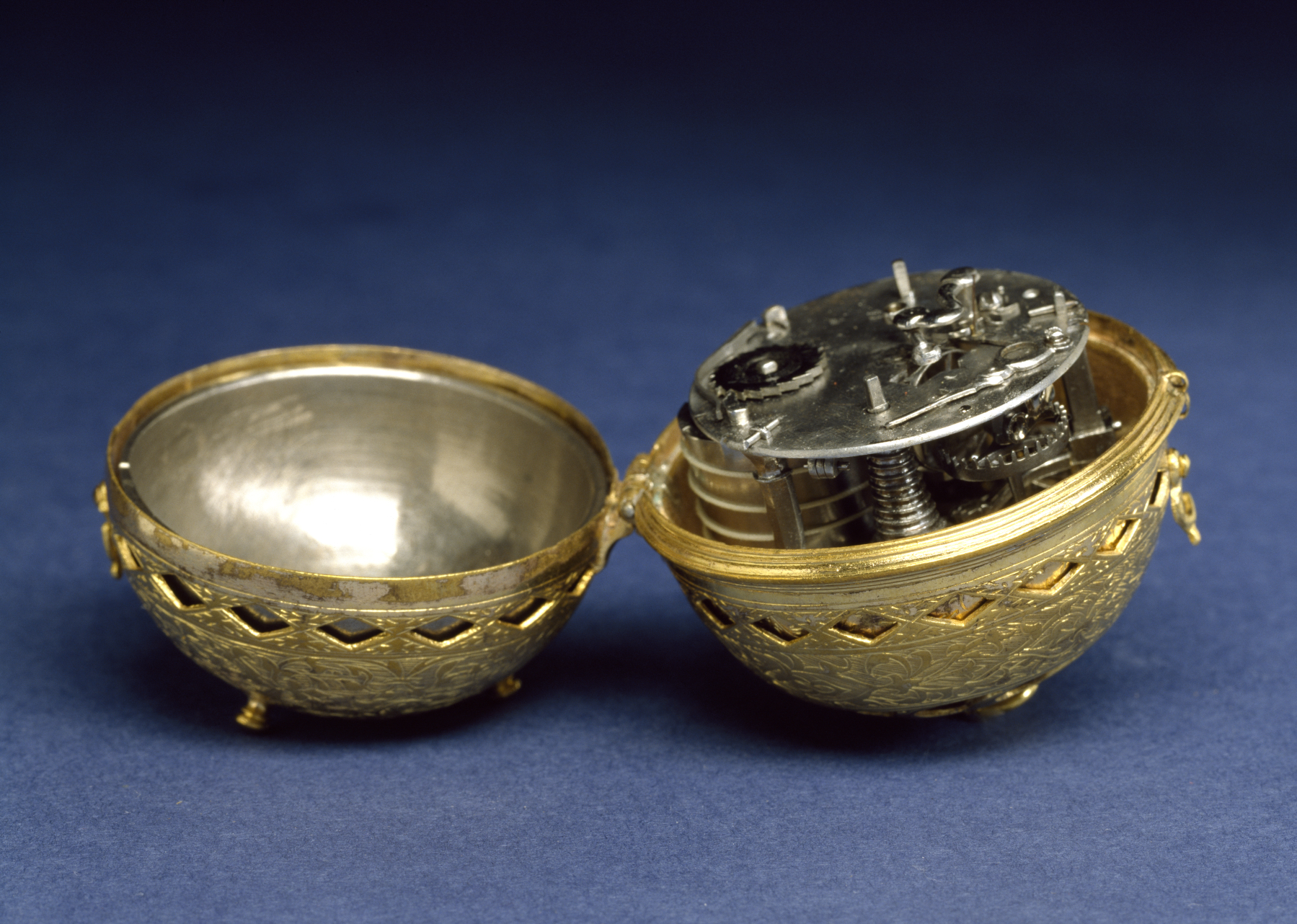 This is the earliest dated watch known. It is engraved on the bottom: "PHIL[IP]. MELA[NCHTHON]. GOTT. ALEIN. DIE. EHR[E]. 1530" (Philip Melanchthon, to God alone the glory, 1530). There are very few watches existing today that predate 1550; only two dated examples are known--this one from 1530 and another from 1548. There is no watchmaker's mark, although Nuremberg is considered the birthplace of spherical watches (called "Nuremberg Eggs"). A single winding kept it running for 12 to 16 hours, and it told time to within the nearest half hour. The perforations in the case permitted one to see the time without opening the watch. This watch was commissioned by the great German reformer and humanist Philip Melanchthon (1497-1560).